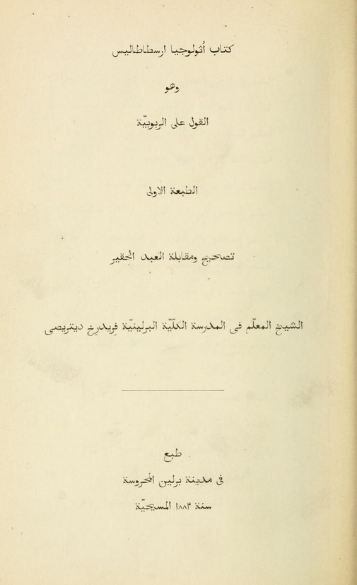 Friedrich Dieterici - Die sogenannte Theologie des Aristoteles : aus arabischen Handschriften - 1882.